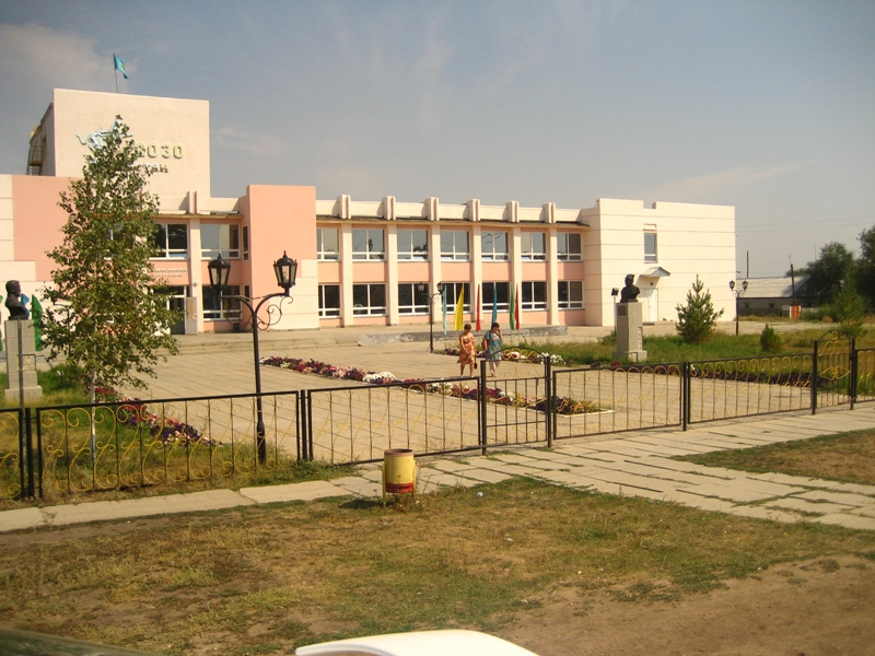 Taskala Leisure Centre (House of Culture)